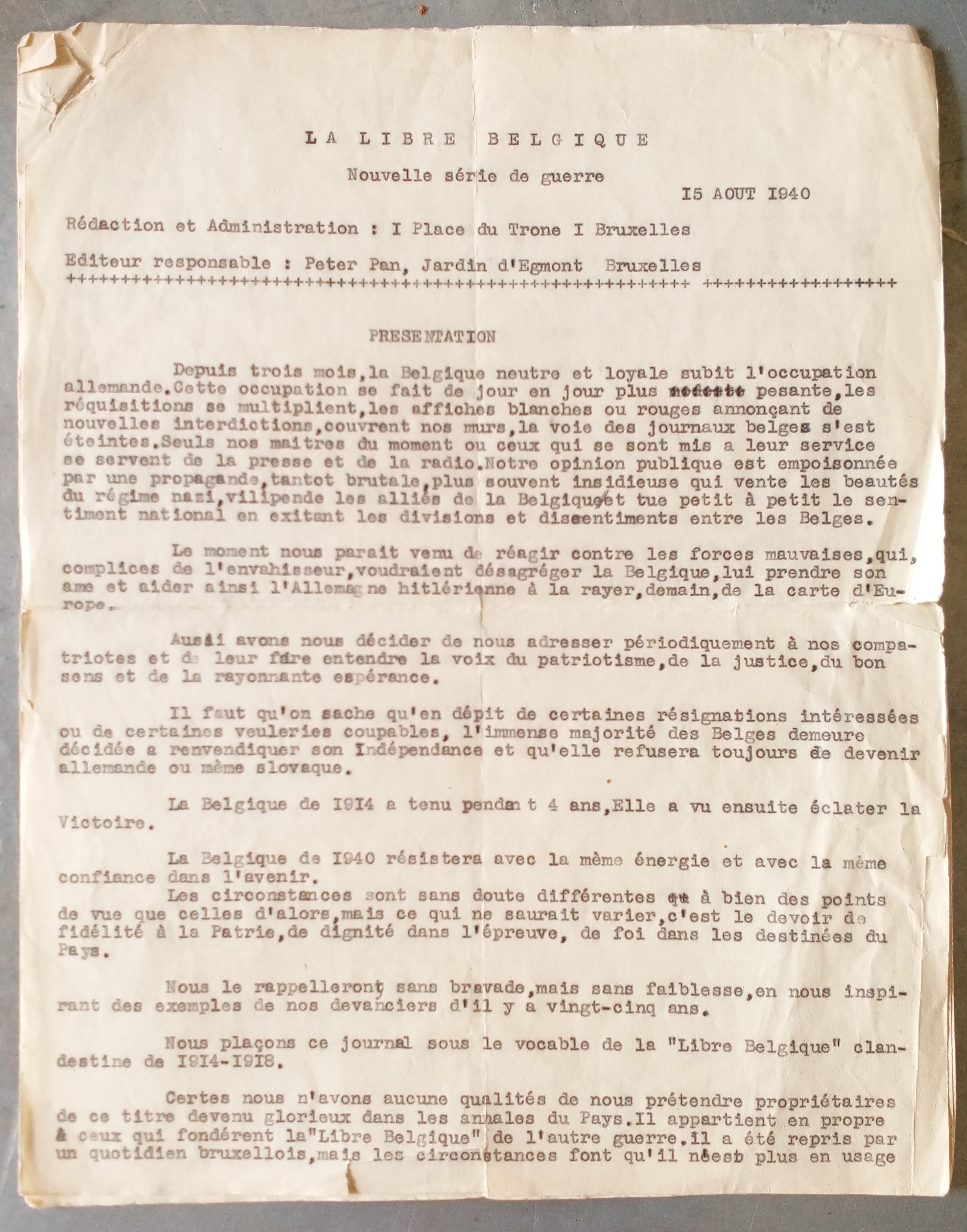 Original copy of "La Libre Belgique" clandestine newspaper. First issue, dated August 15th, 1940. Six one-sided pages. 214x375 mm. Typewrited with carbon-copy paper.